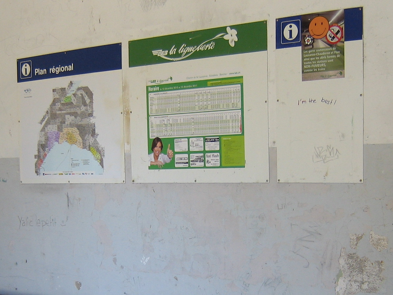 Local map and timetable in the waiting room of the railway station of Fey